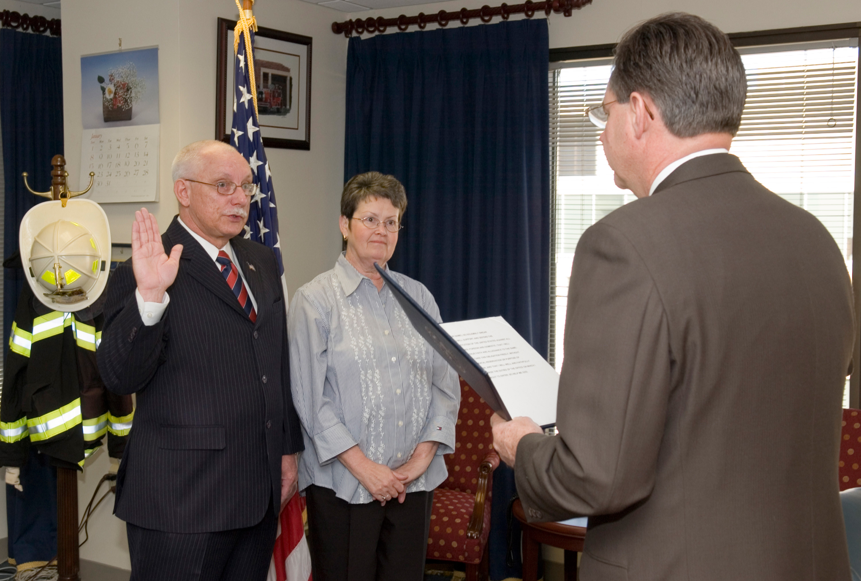 Washington, DC, January 30, 2006 -- William E. Peterson being sworn in as the Regional Director of FEMA's Region VI Office in Denton, Texas. Acting FEMA Director, R. David Paulison is administering the Oath of Office. Bill Koplitz/FEMA